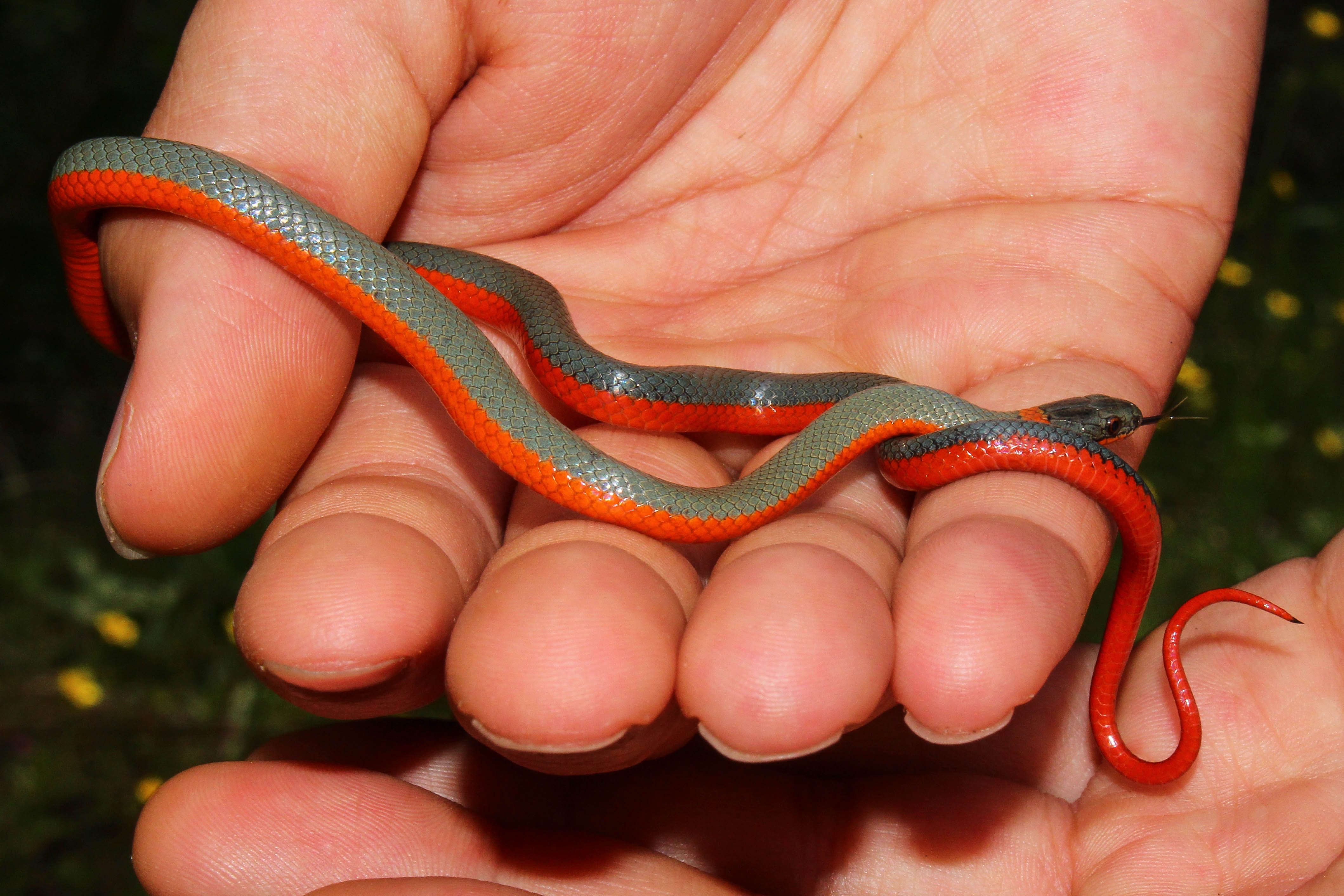 A coral-bellied ring-necked snake (Diadophis punctatus pulchellus), Placer County, California, USA.